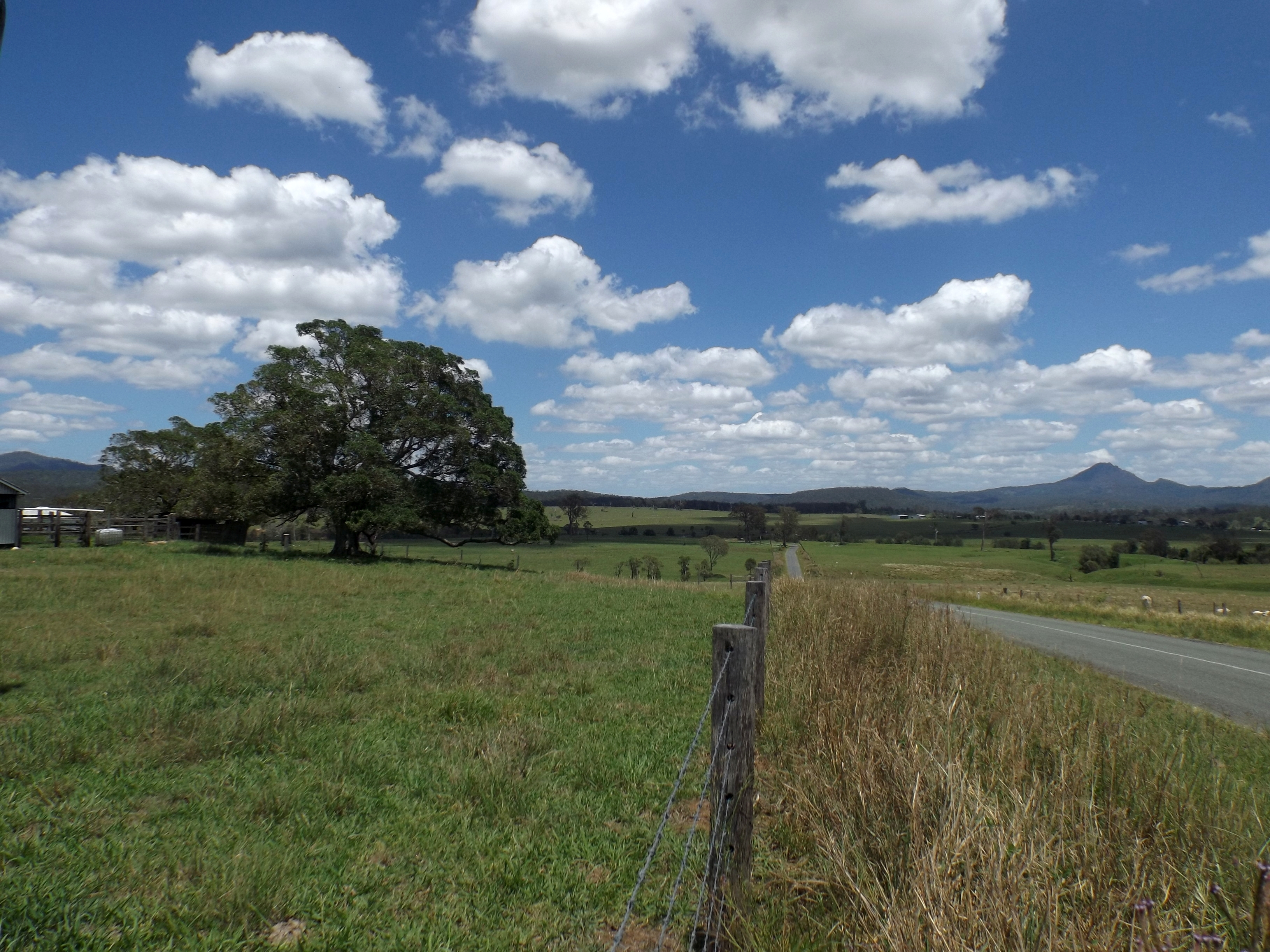 Photo of fields along Brookland Road at Allenview, Scenic Region, Queensland, Australia.